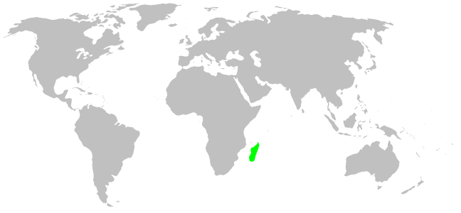 Halidae habitat distribution, drawn after Platnick: World Spider Catalog 7.0. This is not at all a precise rendering of the distribution! If you have better information, please replace this map, or send me the info, and i will redraw it.